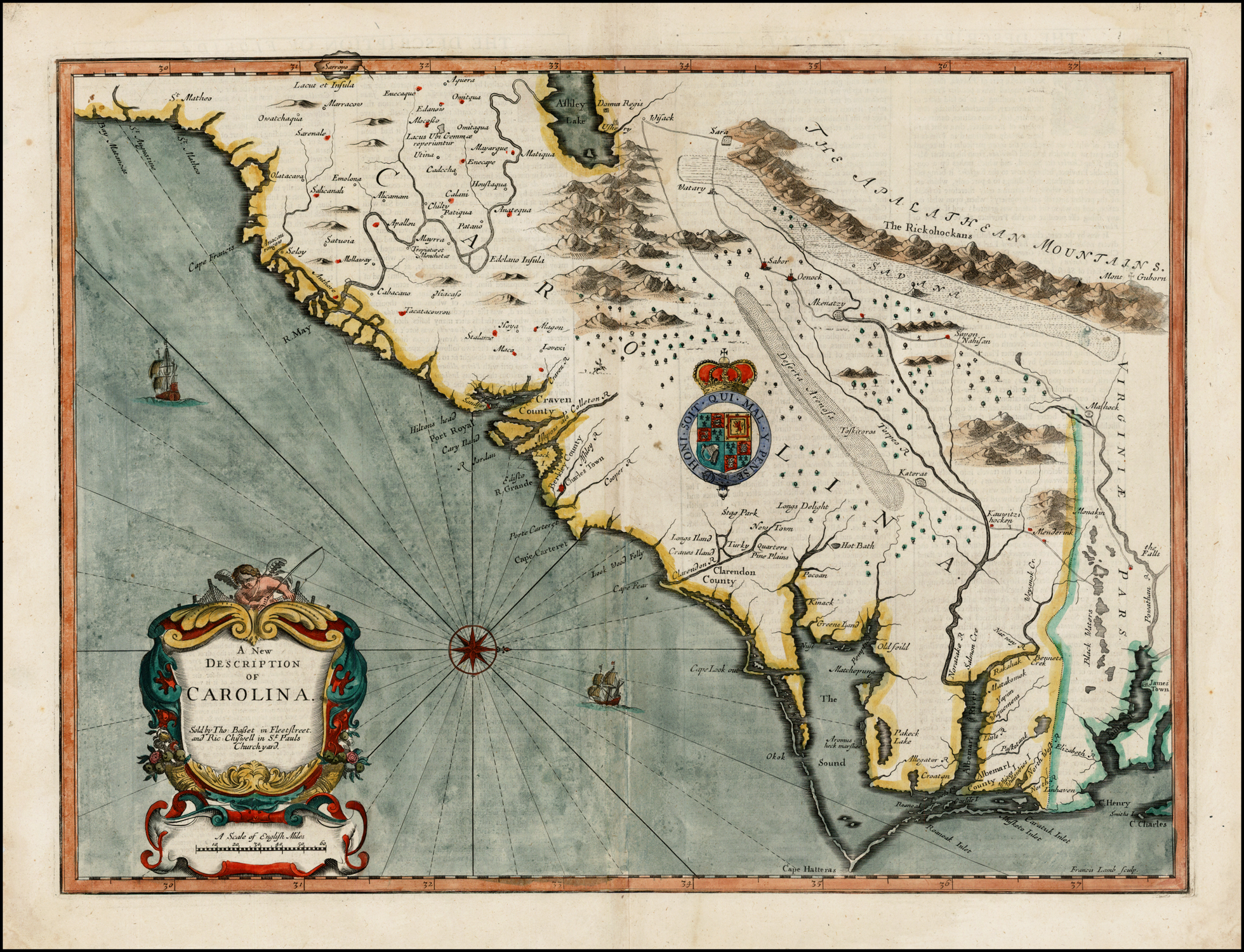 First Lords Proprietors' Map, New description of Carolina by the order of the Lords Proprietors, First Lords Proprietors Map